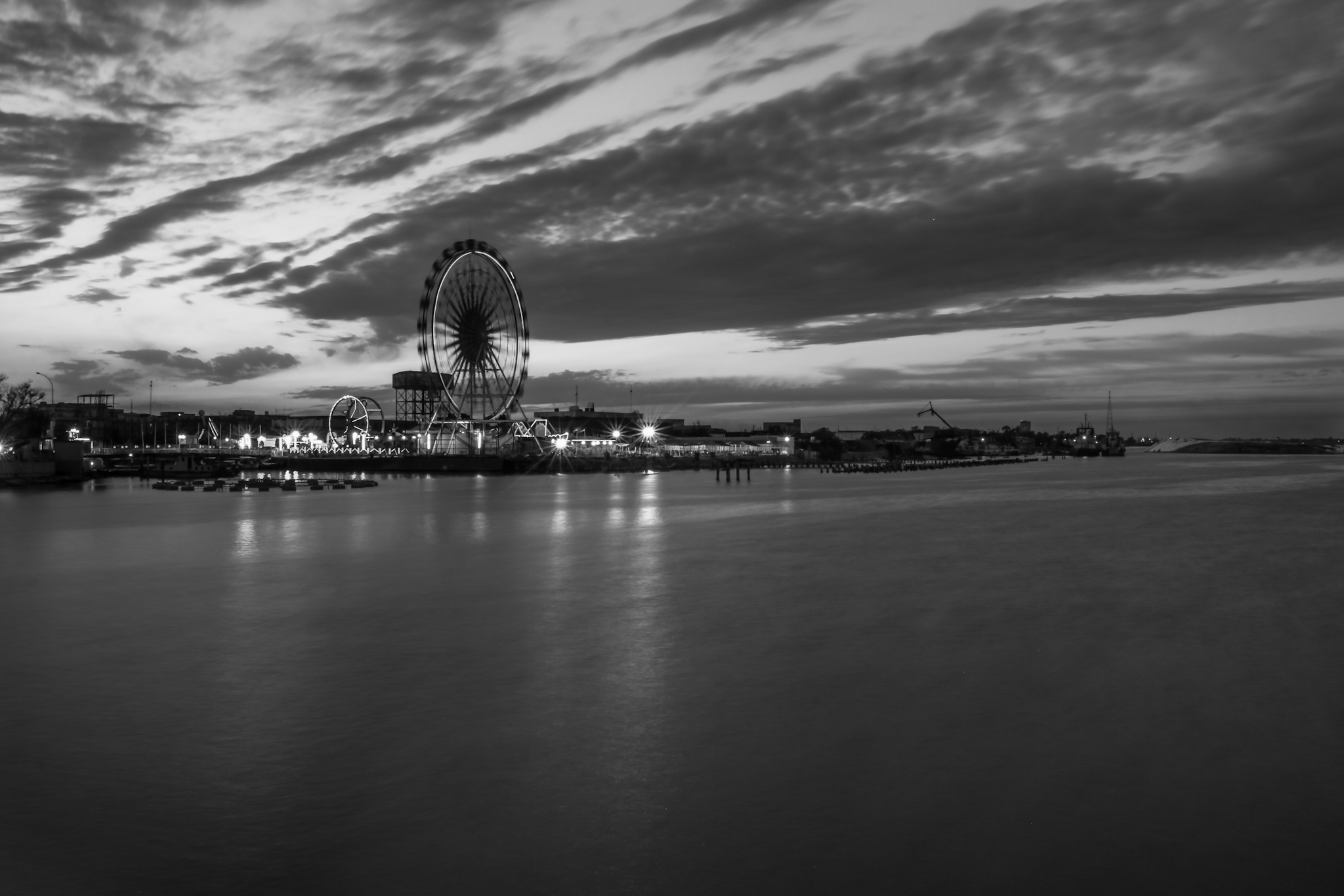 A picture of the Shatt al-Arab, showing the opposite side of the antonom area and called the nesting side.